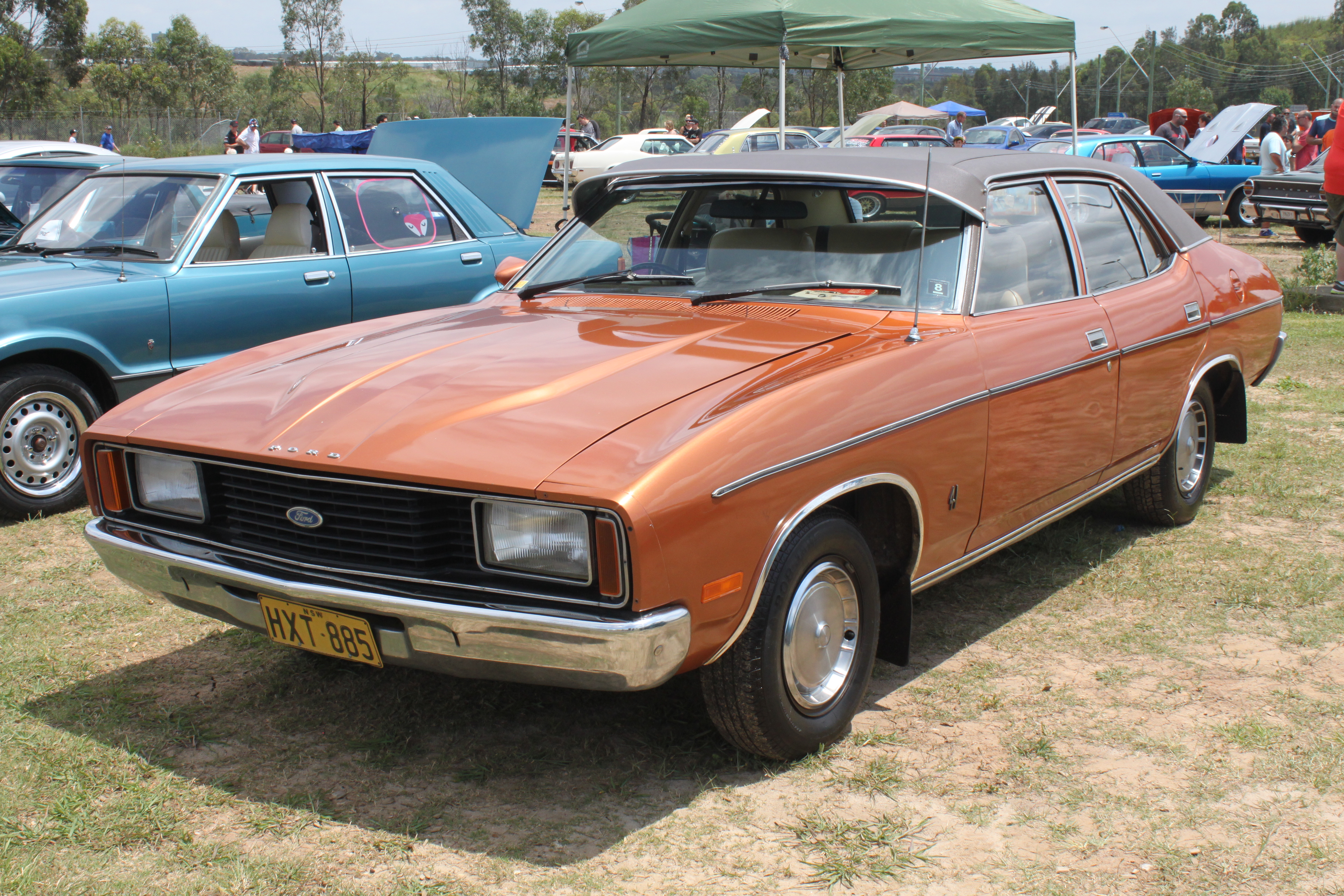 All Ford Day, Eastern Creek NSW, November 2015